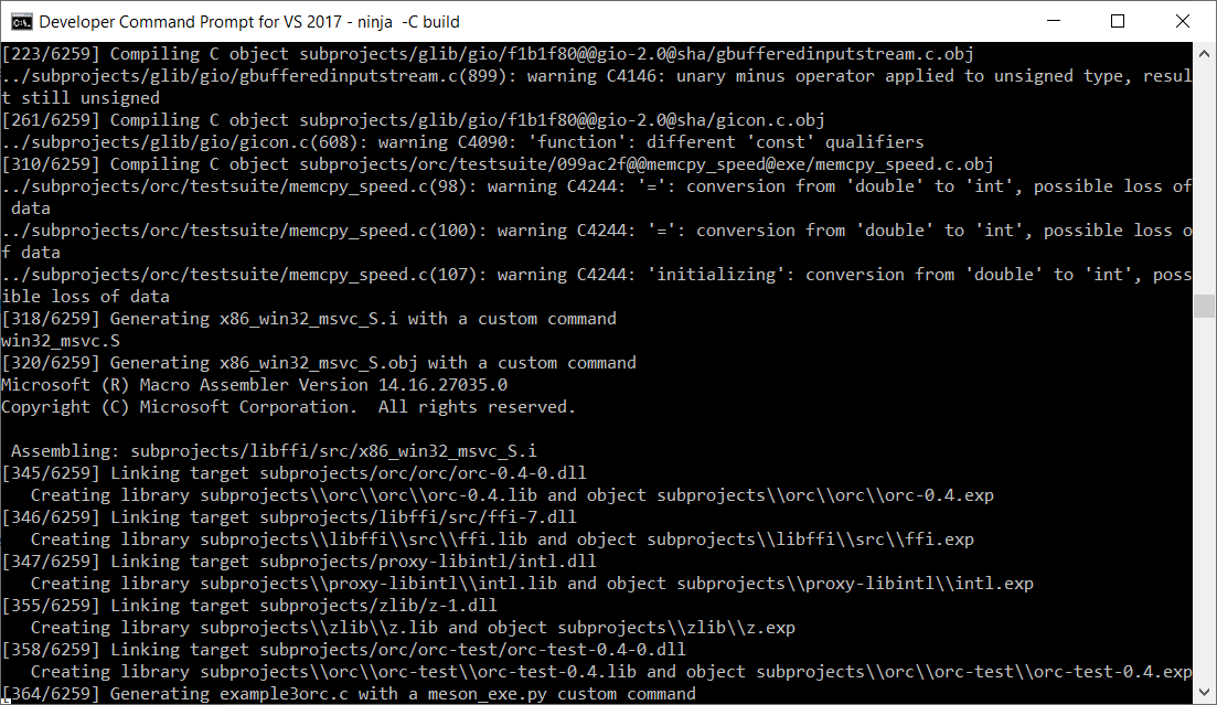 Ninja being used to compile GStreamer.